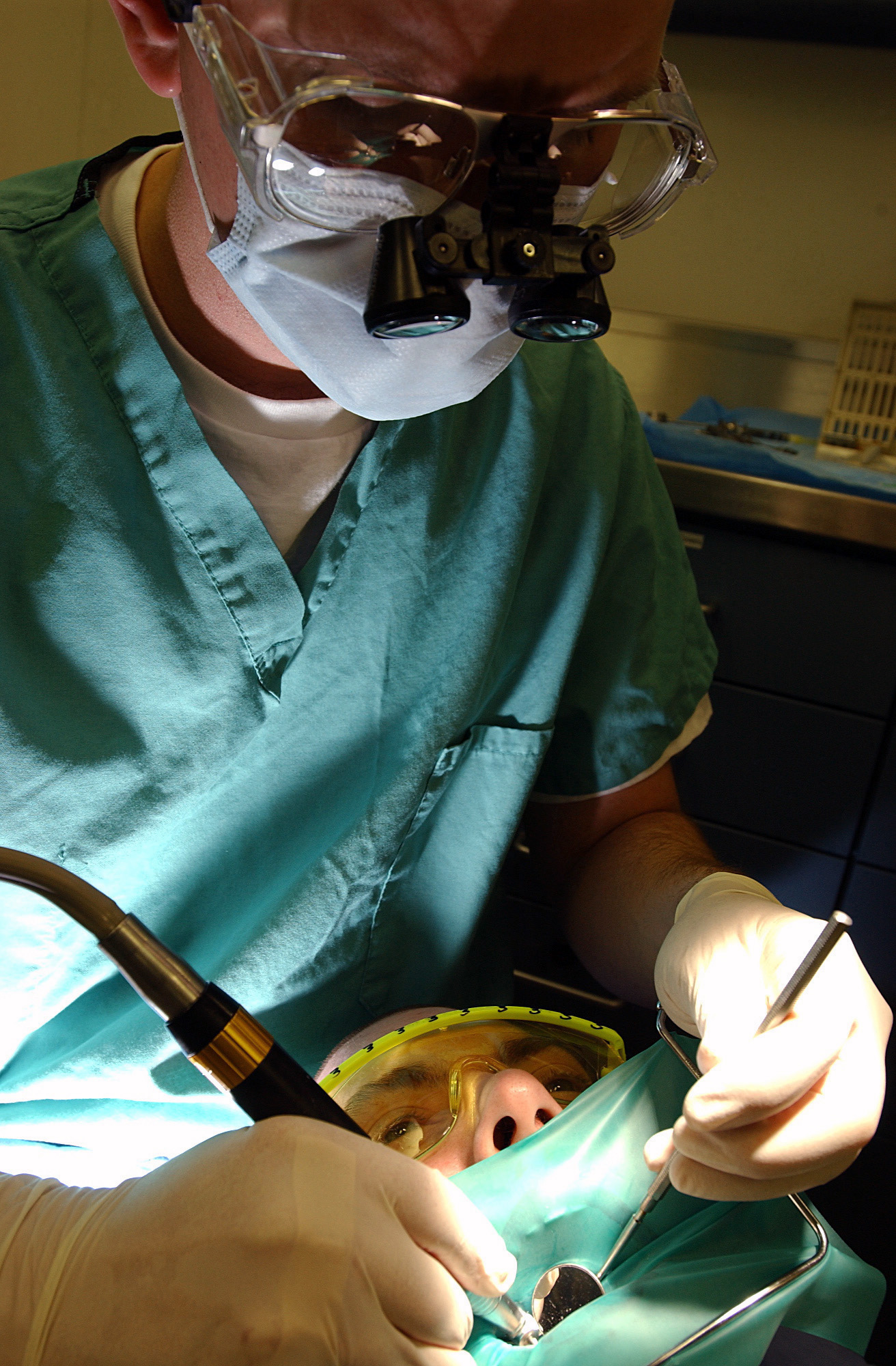 Newport News, Va. (Mar. 24, 2004) - Lt. Cmdr. David Craig, of Brilliant, Ohio, performs a root canal on his patient, Machinist Mate 2nd Class Ben Farrell, of St. Paul, Minn., aboard USS Ronald Reagan (CVN 76). The Navy's newest nuclear powered aircraft carrier is preparing to leave for her new homeport in San Diego, Calif., and is undergoing a six-month Post Shakedown Availability (PSA) period at Northrop Grumman Newport News Shipbuilding, Newport News, Va. U.S. Navy photo by Photographer's Mate Airman Konstandinos Goumenidis. (RELEASED)